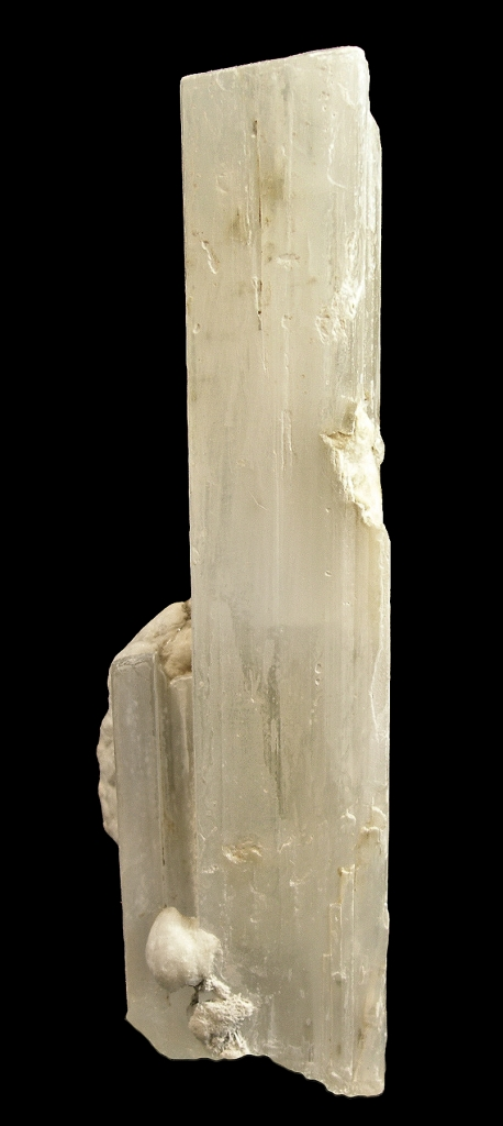 Inderite Locality: Boron, Kramer District, Kern Co., California, USA Size: 8.9 x 2.1 x 2.3 cm This is a superb, world class crystal of inderite, showing sharp form and a lack of alteration into chalky tincalconite so often seen in this material. Purchased from collector Ed Swoboda, in 1983, it is a superb, dramatic single crystal with a broad and perfect termination. Seldom seen on the market, today. Ex. Al Ordway Collection.